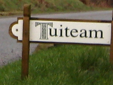 Sign for Tuiteam house, on the north bank of the River Oykel. The road is the A837 road that runs up Strathoykel. I know it's not a great photo, if anyone wants to take a new one that's in focus, in decent light and/or not partly blocked by the house, feel free to replace it!